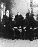 Image of the Puerto Rican Revolutionary Commission in 1895 (their source: : La Gran Enciclopedia de Puerto Rico)